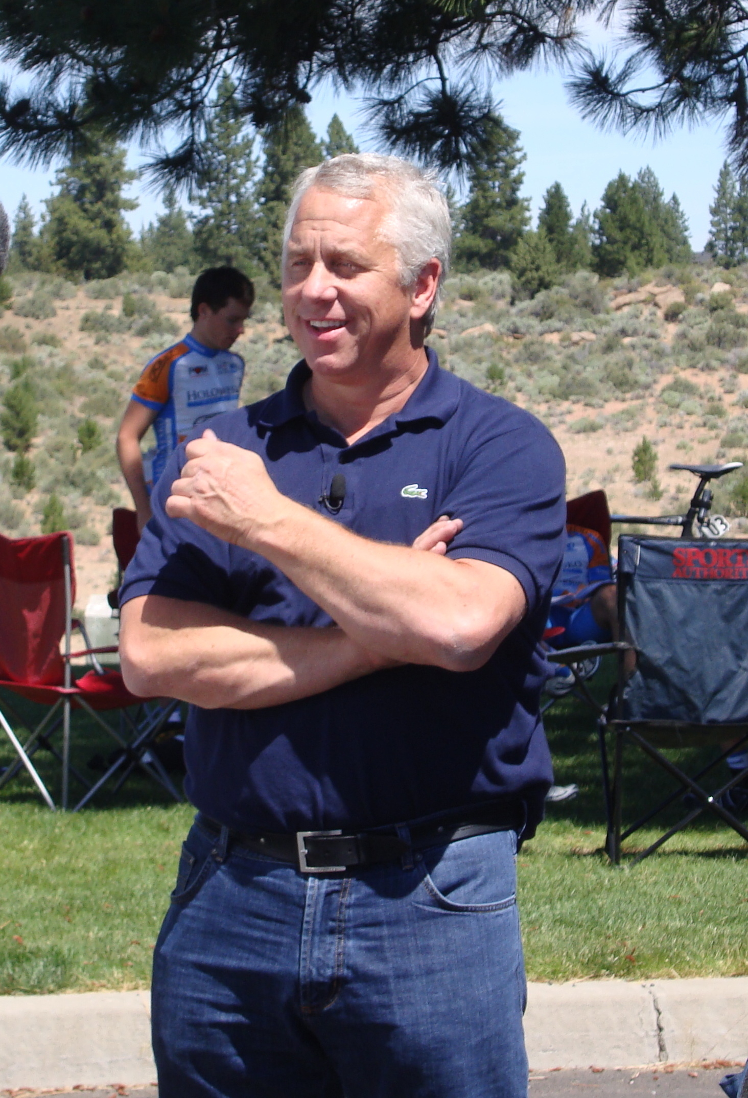 That's Greg Lemond!